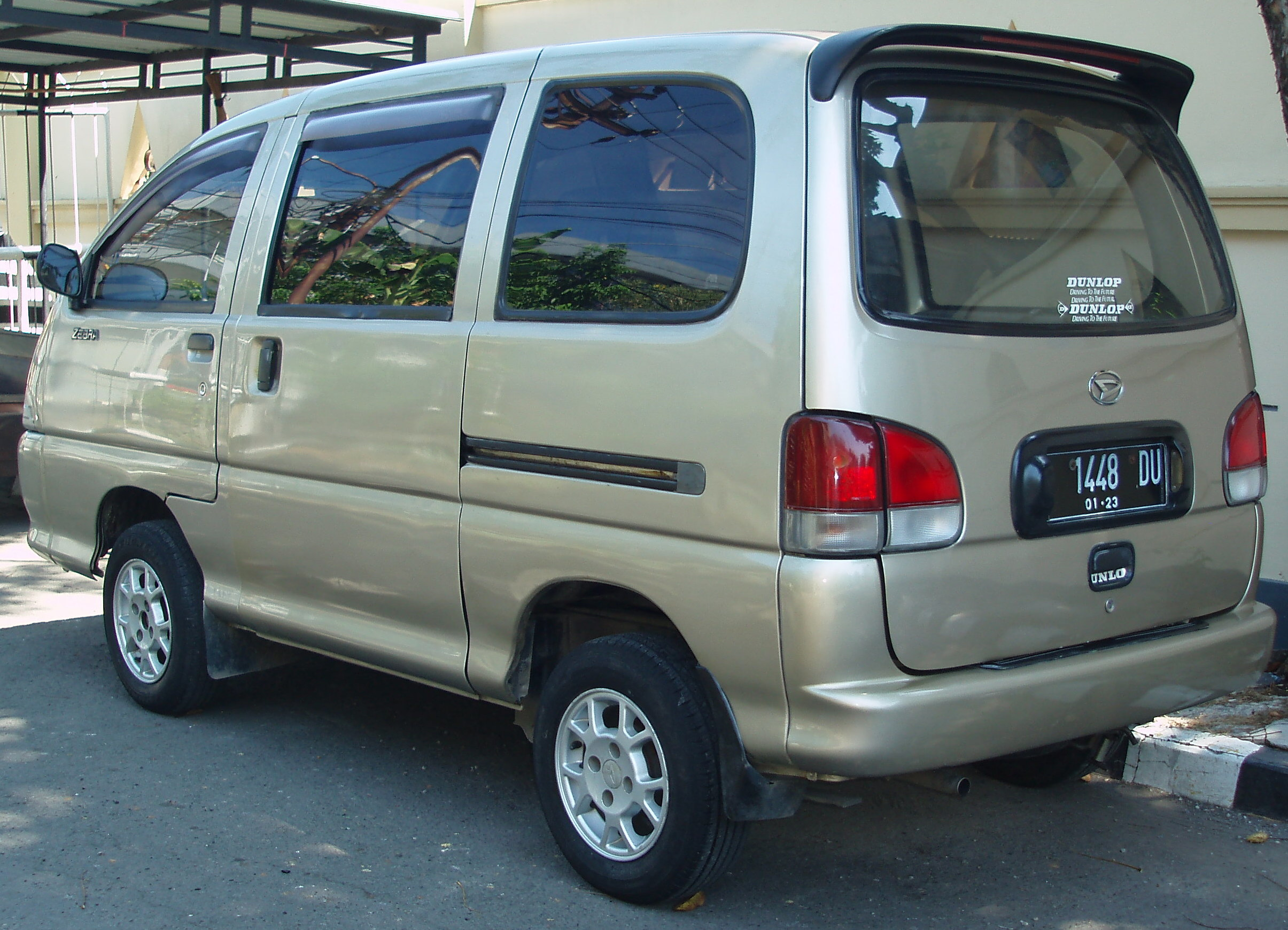 2005 Daihatsu Zebra Espass ZL 1.3 photographed in West Surabaya, East Java, Indonesia.